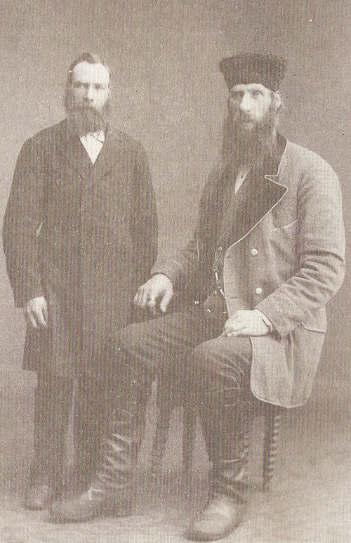 Henrik Brustad (right) with his brother